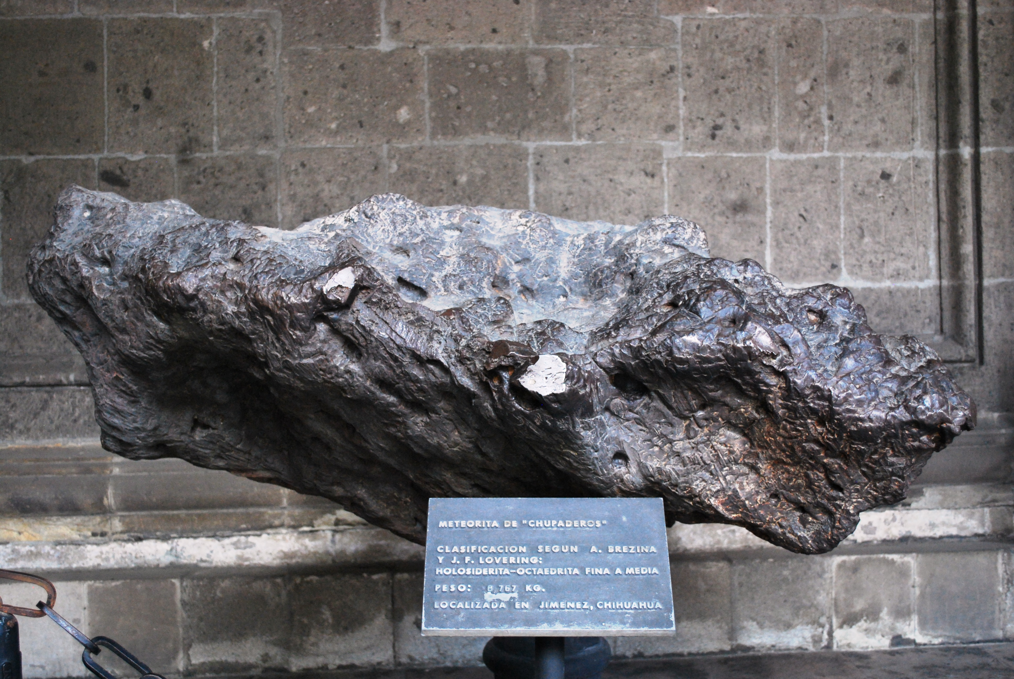 Meteorite named "Chupaderos" found in Jimenez Chihuahua weighing 8767 kilos on display at the Palacio/Colegio de Mineria in the historic center of Mexico City